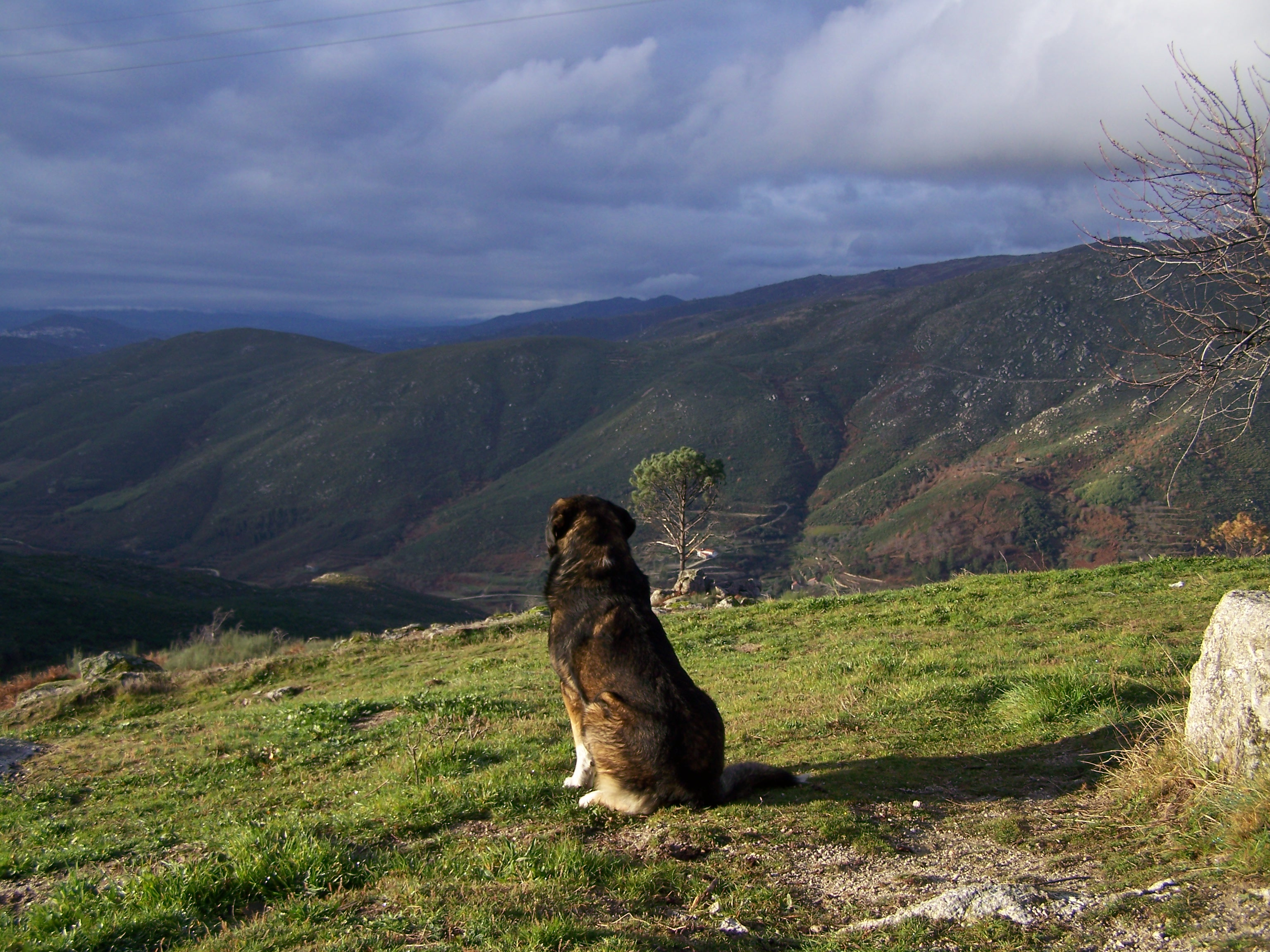 view from Albardeiros, Vale de Estrela, Guarda, Portugal. Serra da Estrela